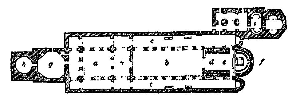 Illustration from 1911 Encyclopædia Britannica, article BASILICA. Fig. 19.—Ground-Plan of Cathedral of Parenzo, Istria. a, Cloistered atrium. +, Narthex. b, Nave. c, c, Aisles. d, Chorus cantorum. e, Altar. f, Bishop's throne. g, Baptistery. h, Belfry. i, Chapel of St Andrew.